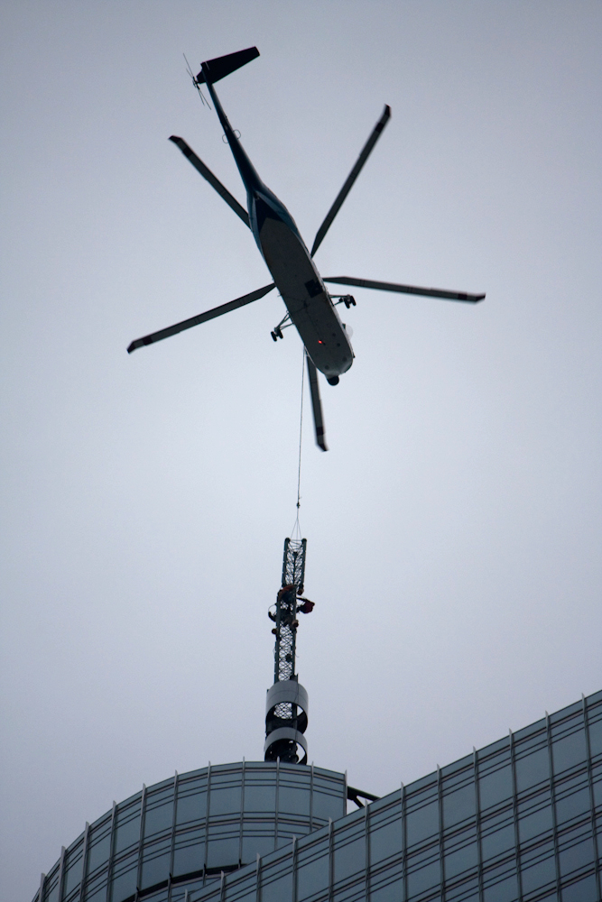 Trump International Hotel and Tower (Chicago) spire helicopter delivery